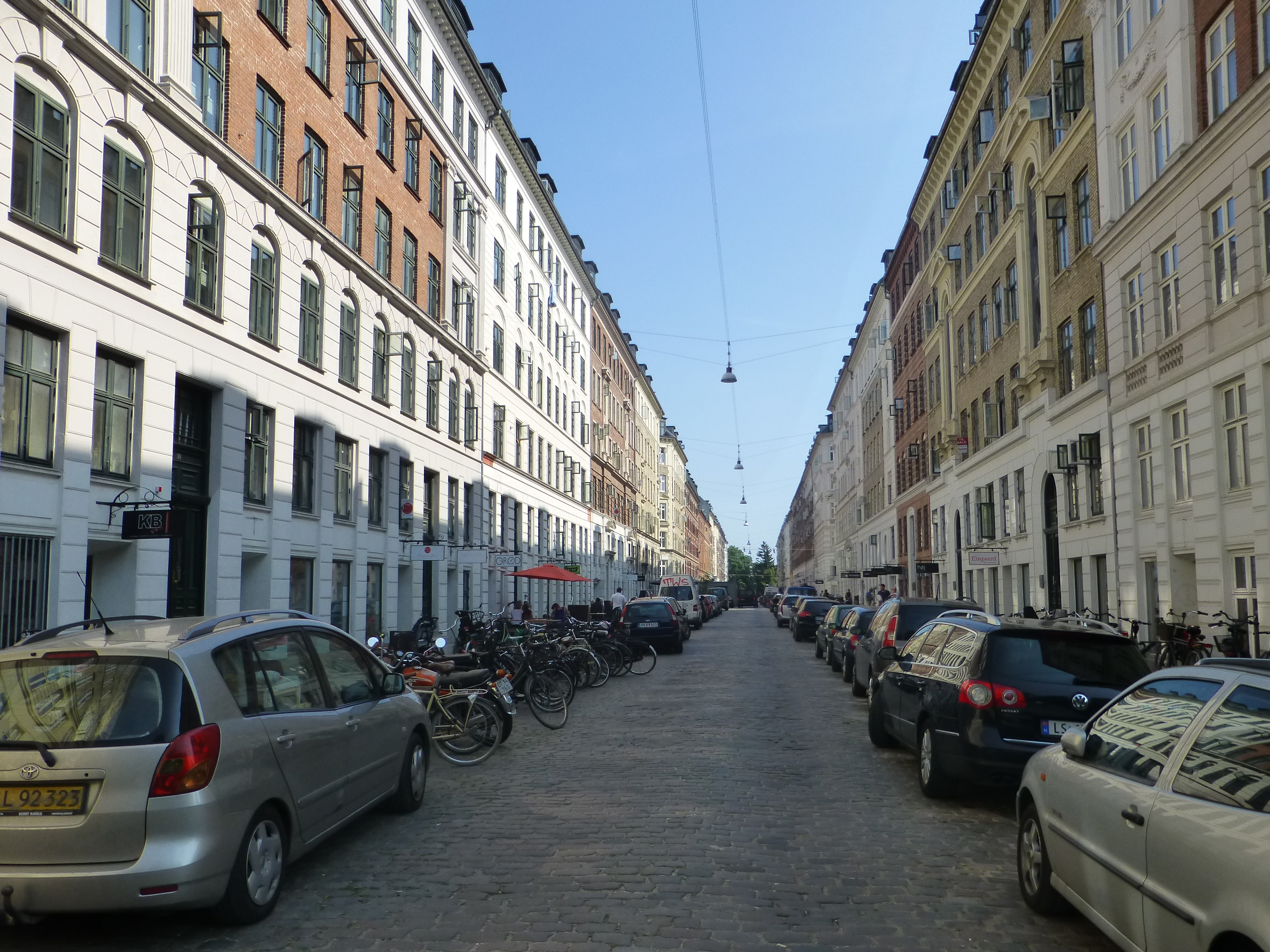 The street Jægersborggade in Nørrebro in Copenhagen.